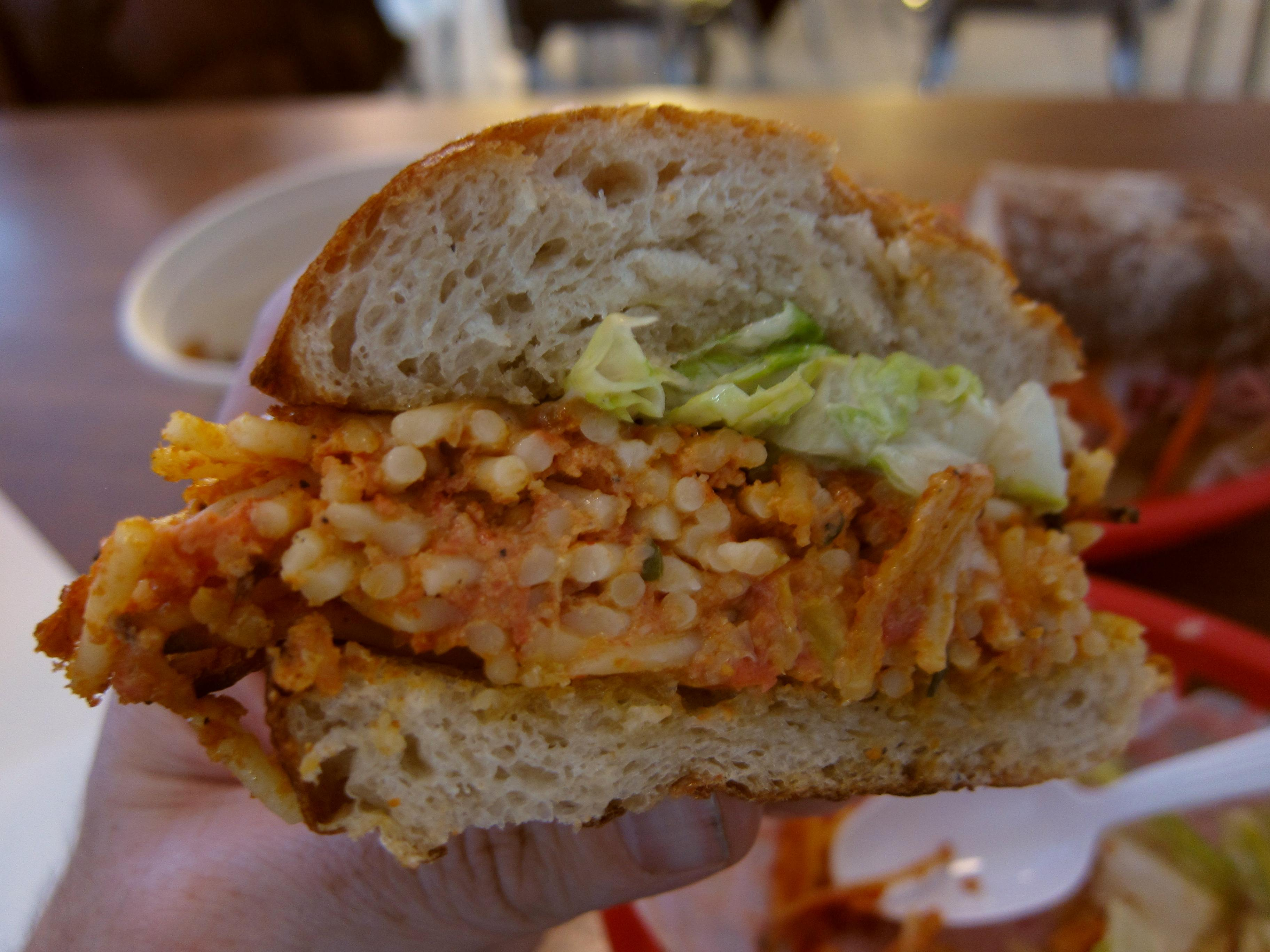 M. Wells Dinette - Spaghetti Sandwich - and it was oddly delicious